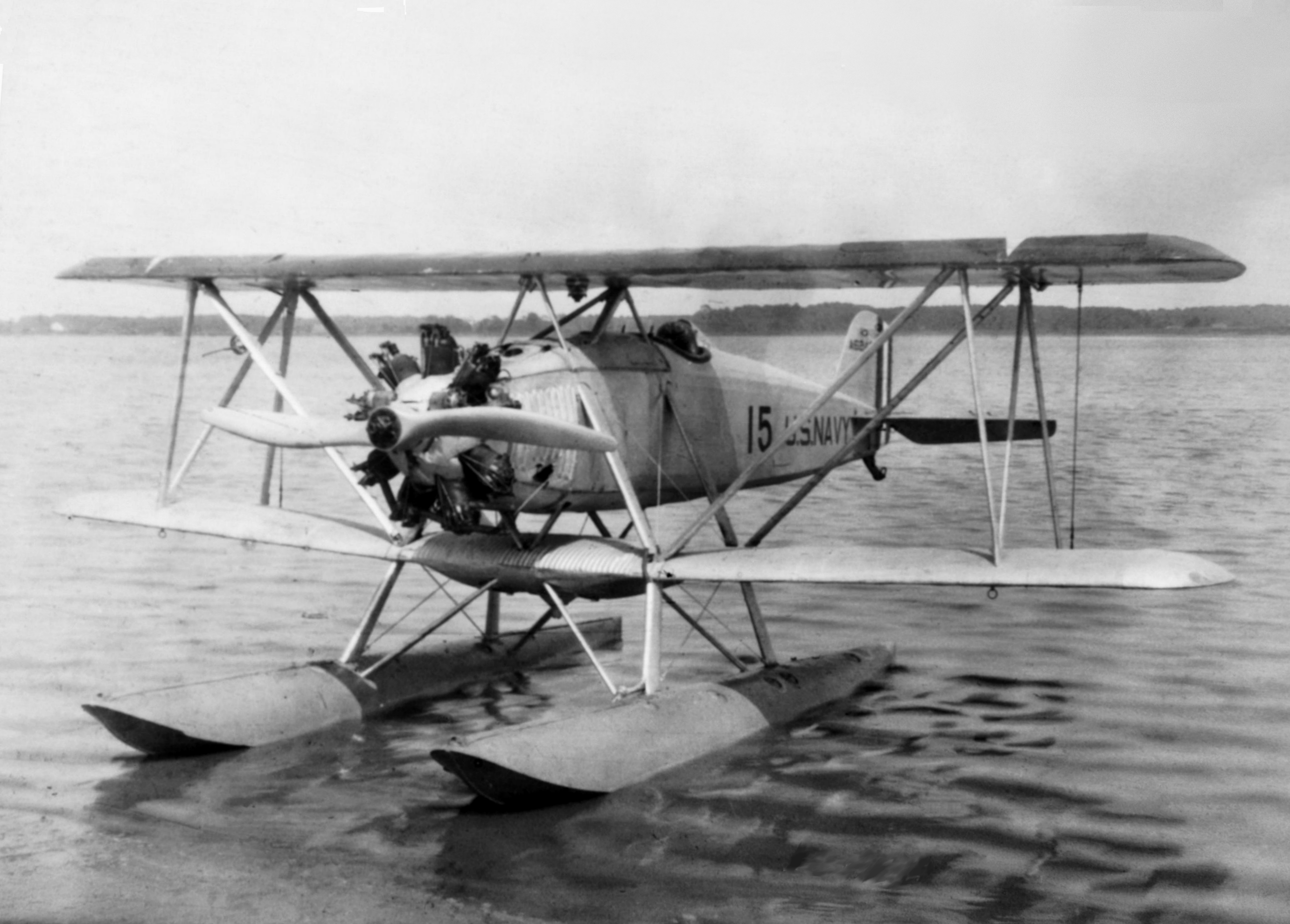 A Curtiss TS-1 from the Langley Aeronautical Laboratory at Hampton, Virginia (USA). The Curtiss TS-1 was a Naval Aircraft Factory designed fighter, for which Curtiss won the contract for production. The TS-1 was the first air-cooled radial engined fighter for the U. S. The NACA used their example for (among other things) pontoon pressure distribution testing.